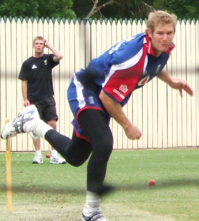 Matthew Hoggard bowling in the nets at Adelaide ll,lOval